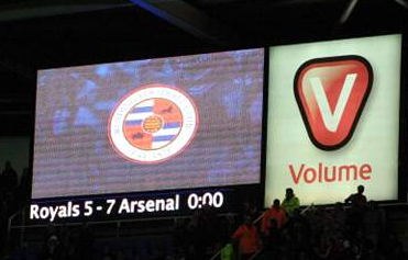 The Madjeski scoreboard, dictating the famous 7-5 Arsenal victory over Reading in the Football League Cup